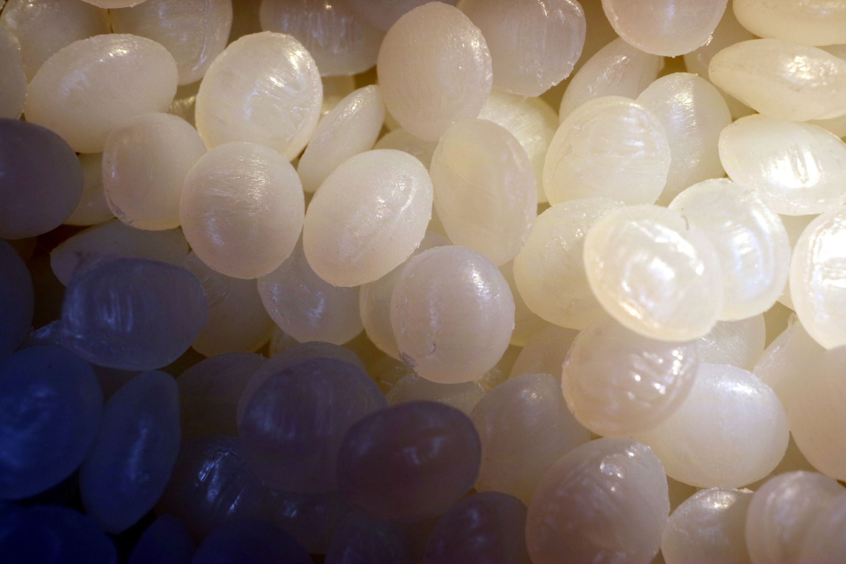 Polycaprolactone (PCL) plastic beads, one side illuminated & the other shaded. The beads are ~3.5mm across.